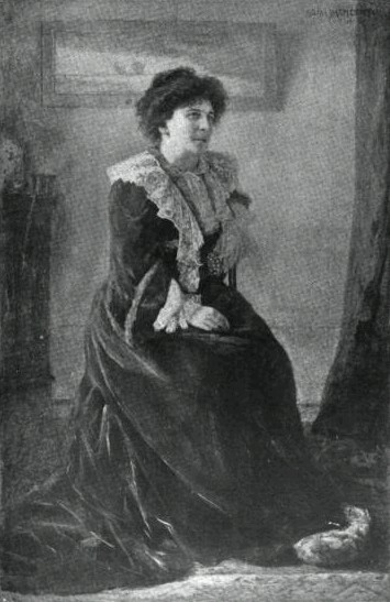 Painting of Hertha Ayrton, the scientist and inventor, by Mme. Darmesteter